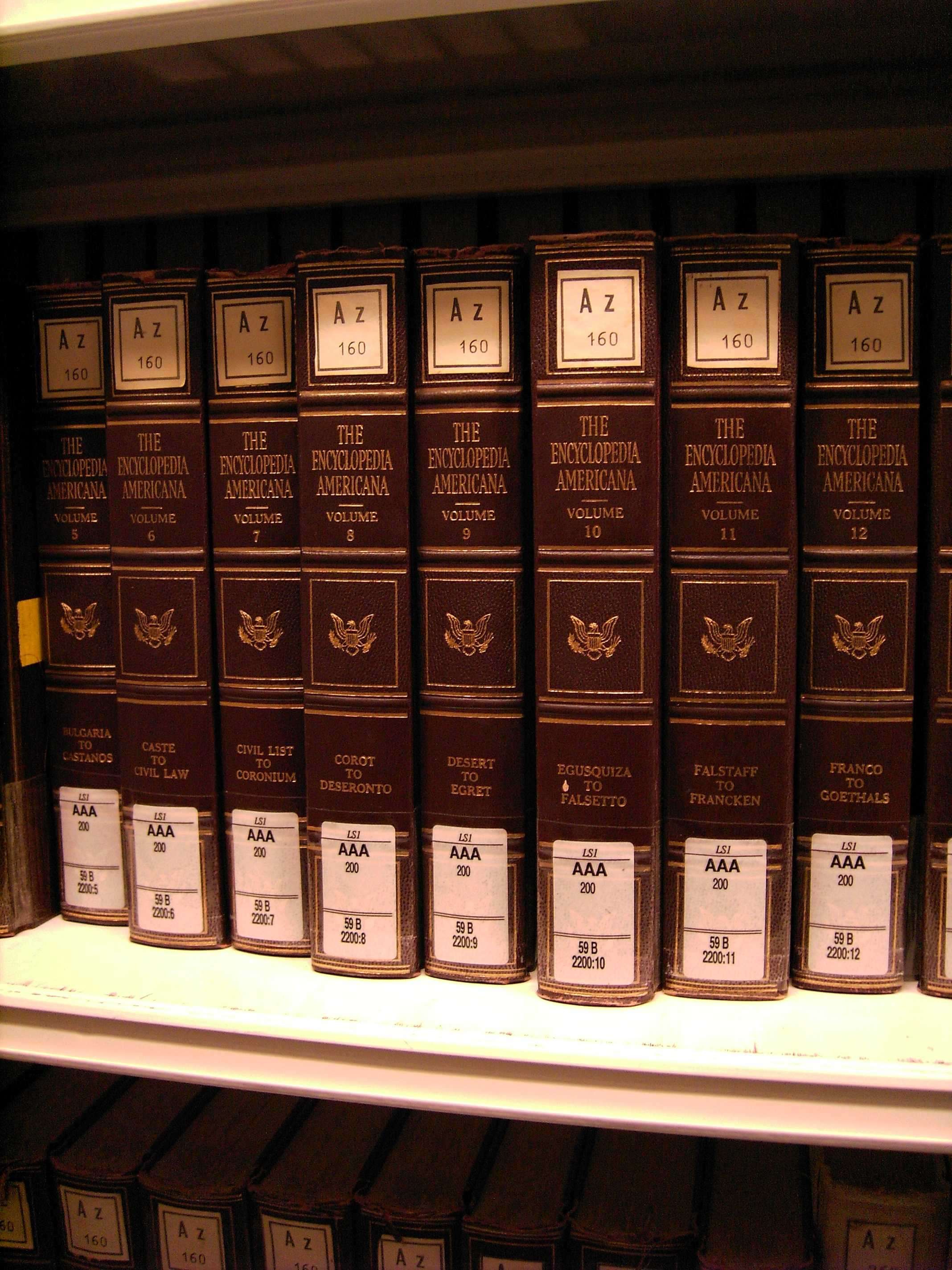 Göttingen, SUB Library, Lesesaal. Encyclopedia Americana.